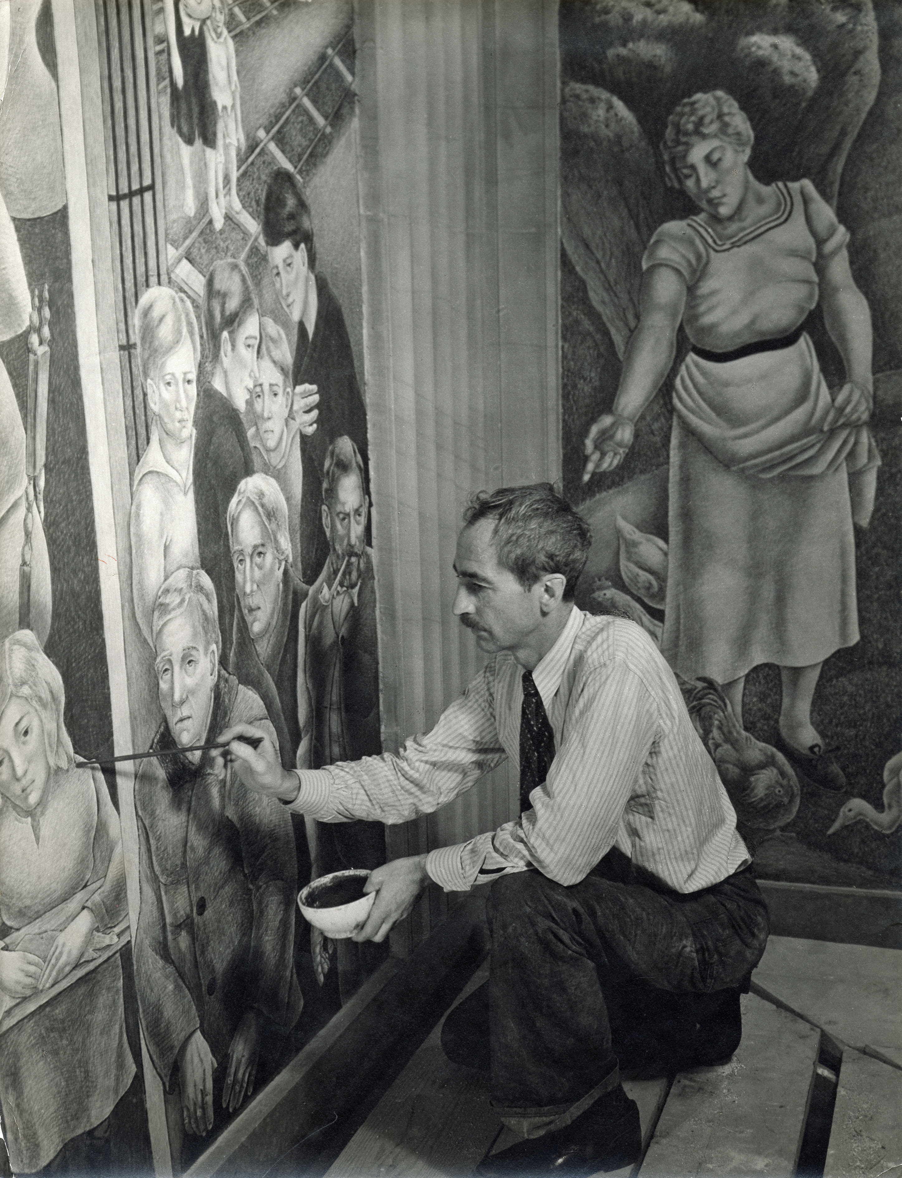 Biddle at work on a panel of the U.S. Dept. of the Treasury, Section of Painting and Sculpture - sponsored mural entitled, "Society Freed through Justice", located in the fifth floor lobby of the Attorney-General's office in the Justice Department Building, Washington, D.C. Identification on accompanying label (typewritten): George Biddle (1885- ). Biddle received his law degree but immediately turned to art. His murals decorate government buildings in the United States, Brazil, and Mexico. He was active in helping to set up the Federal Art Project in the Thirties. Being an artist of great versatility, he has worked in stone, clay, paint, wood, and block printing.